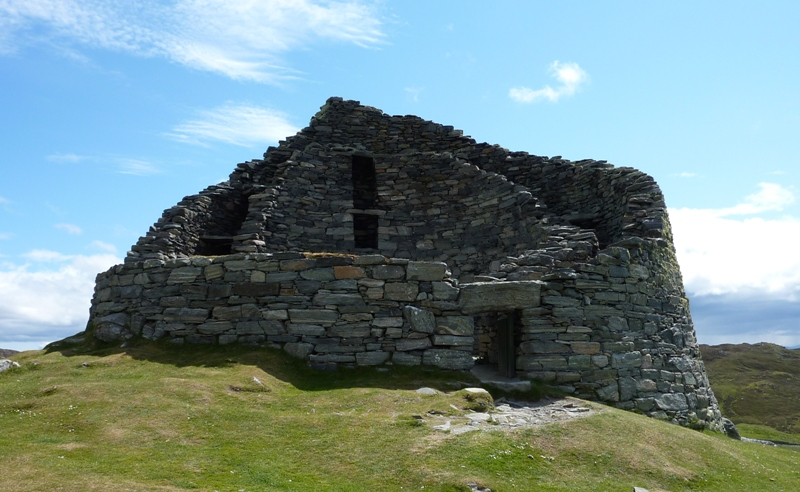 Dun Carloway, Lewis, Scotland - from north west